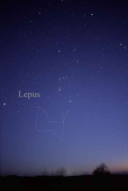 Photography of the constellation Lepus, the hare